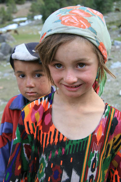 Yaghnobi children. Ayni, Tajikistan